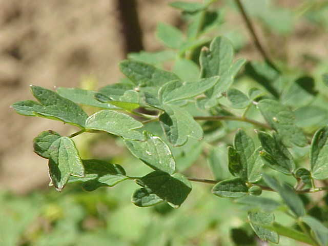 Species: Thalictrum aquilegifolium Family: Ranunculaceae Image No. 1